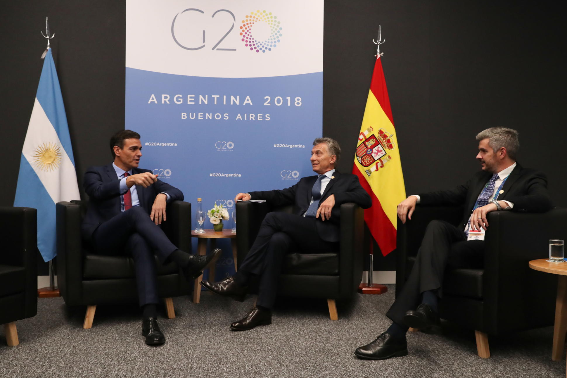 Pedro Sánchez, Mauricio Macri and Marcos Peña at the 2018 G-20 Buenos Aires summit.